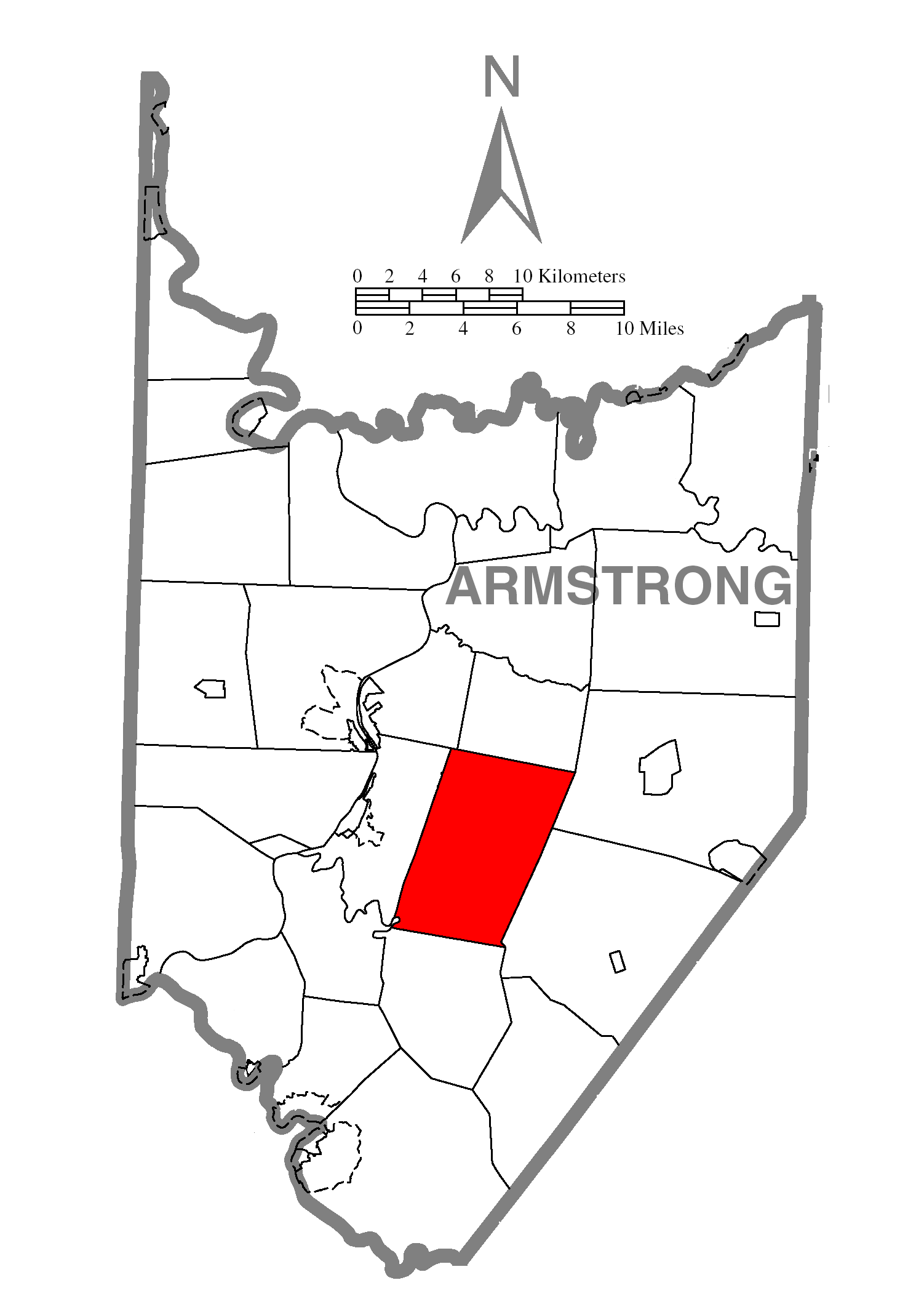 A map of Armstrong County showing Kittanning Township, Pennsylvania (alternate) highlighted on the map.